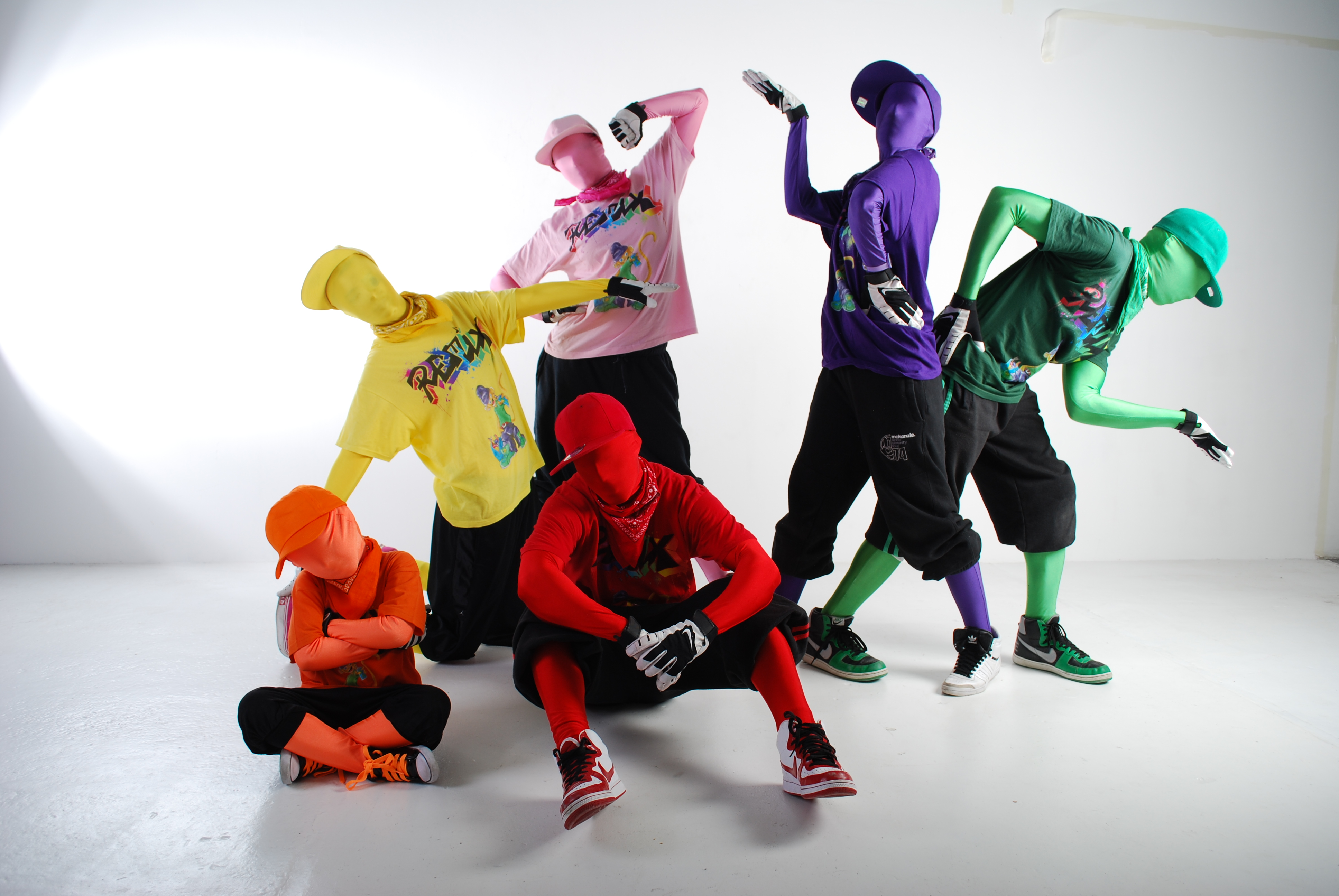 Remix Monkeys are a new dance clan based in the UK, "twisting up the look and style of street dance and stepping outside of the commercial box." The dancers are pictured in Morphsuits, a branded zentai suit, which they wear during some of their routines. According to their official materials, "They aim to develop a new style of their own, creating a new pathway for dancers to follow."